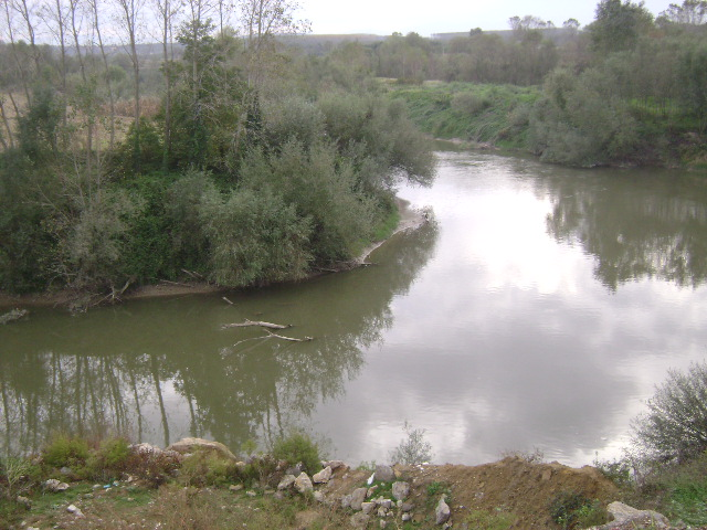 Sakarya river